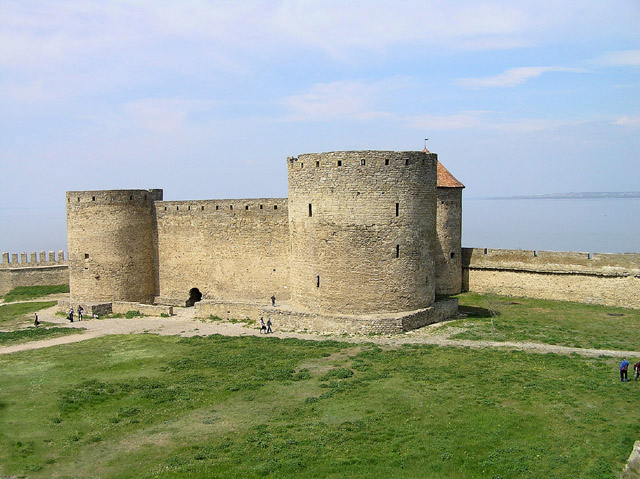 Fortress of Akkerman in Bilhorod-Dnistrovskyi